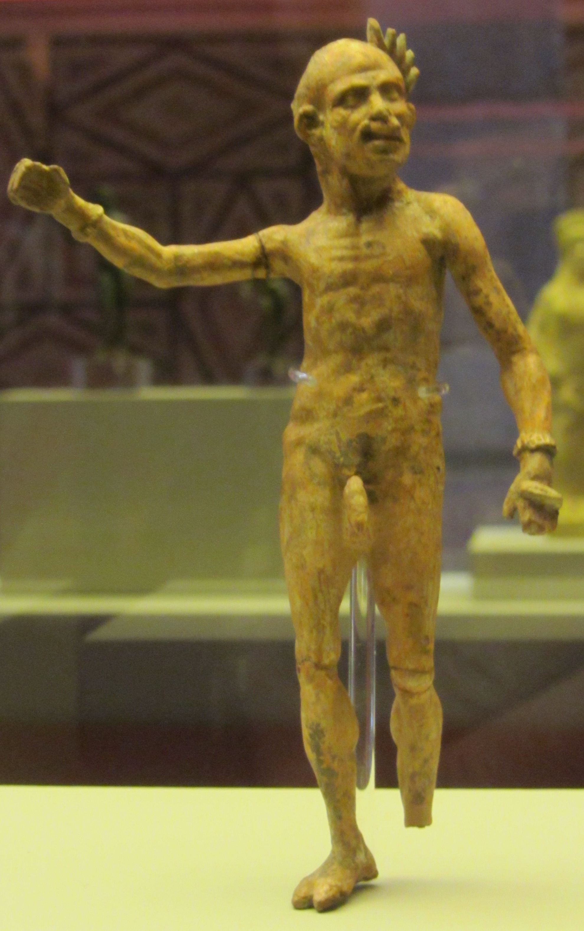 Old man, terracotta figurine made in Myrina, ca. 2nd-century BC.